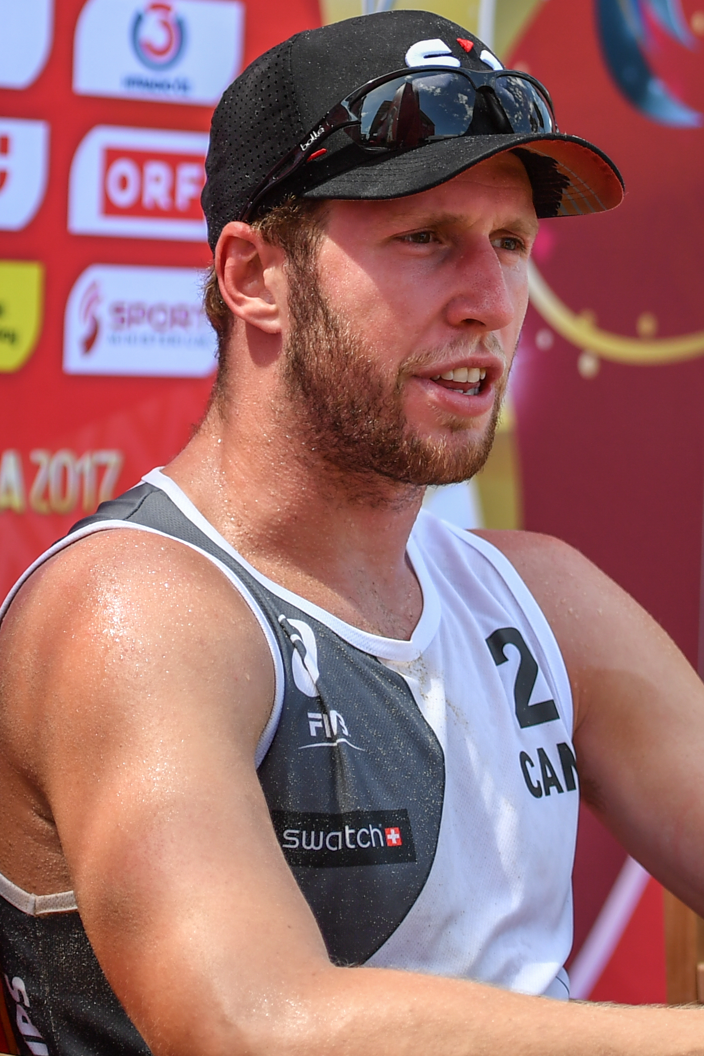 30/7/17, Vienna, Austria, sports, beach volleyball, FIVB Beach Volleyball World Championships.